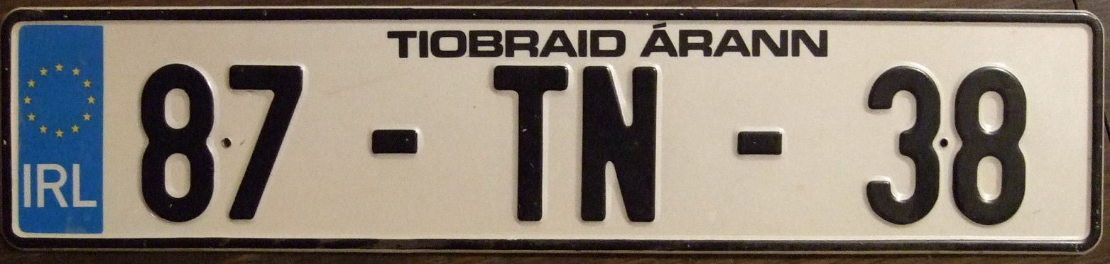 Nice low number, "87" denotes year of issue, "TN" county code with serial number of "38" The 38th license plate issued in Tipperary North in 1987.